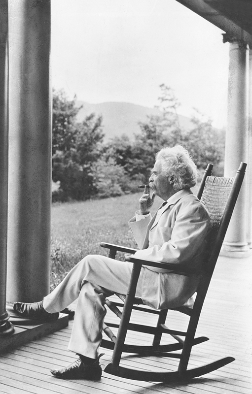 Mark Twain relaxing on a porch in New Hampshire.